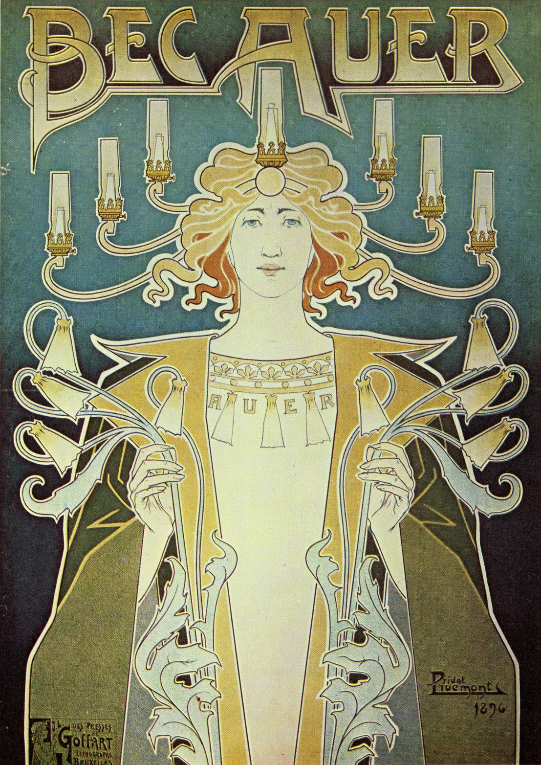 Affiche: Bec Auer, incandescent gas mantles